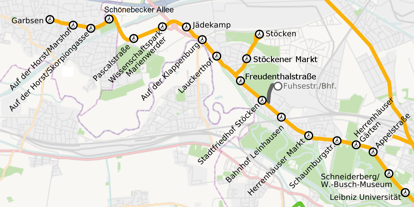 Light rail of Hannover, Germany. C West